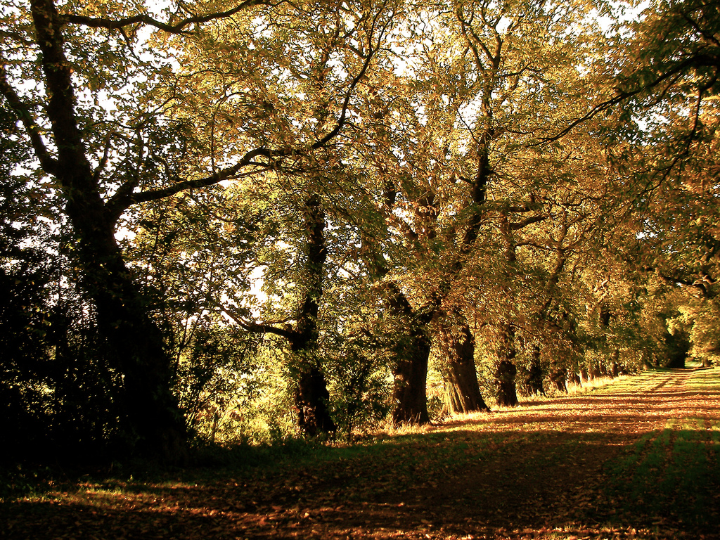 Keele Drive